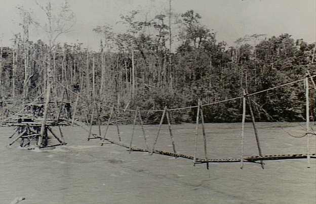 AWM Caption: Wairopi, Papua, c. 1942-11-17. An Australian soldier followed by a line of native Papuan carriers and other soldiers carefully steps out onto a makeshift bridge over the swift-flowing Kumusi River at Wairopi on the northern section of the Kokoda Trail. As no steel hawser of sufficient length was available, the bridge had to be suspended between the banks of the river on a single strand of manilla rope. The soldiers are part of an Australian force advancing on the strong Japanese defences in the Buna-Gona area.